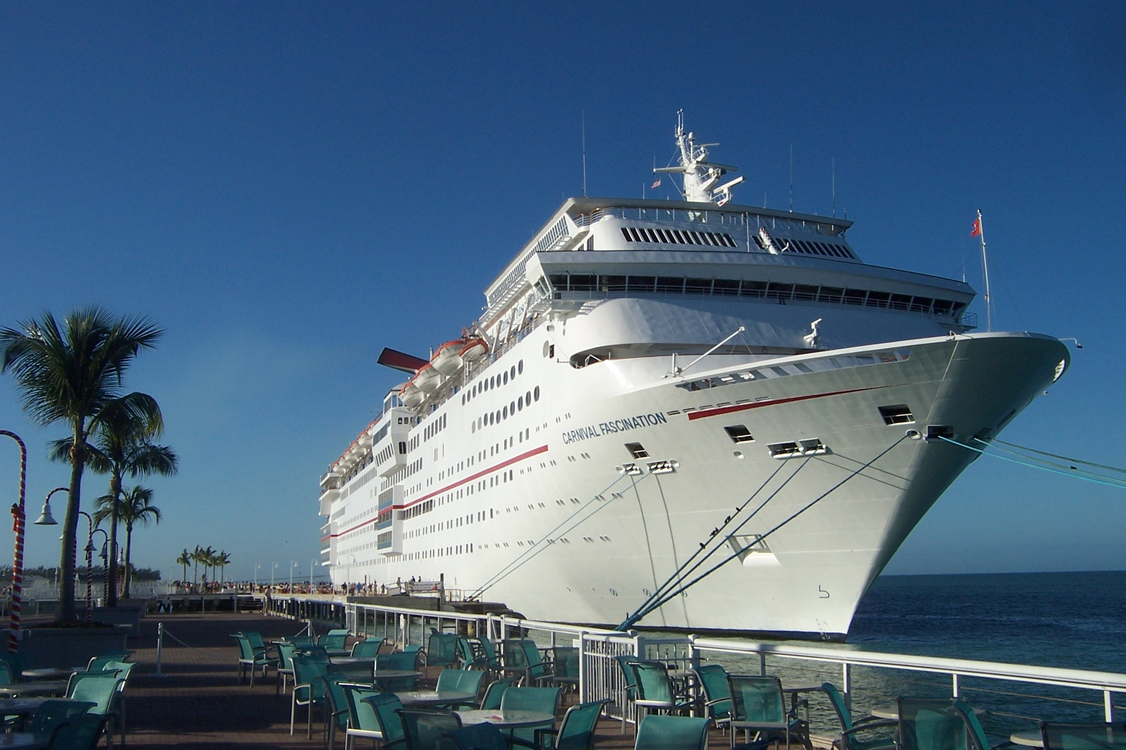 Carnival Fascination docked in Key West. Morning disembarkation of passengers.